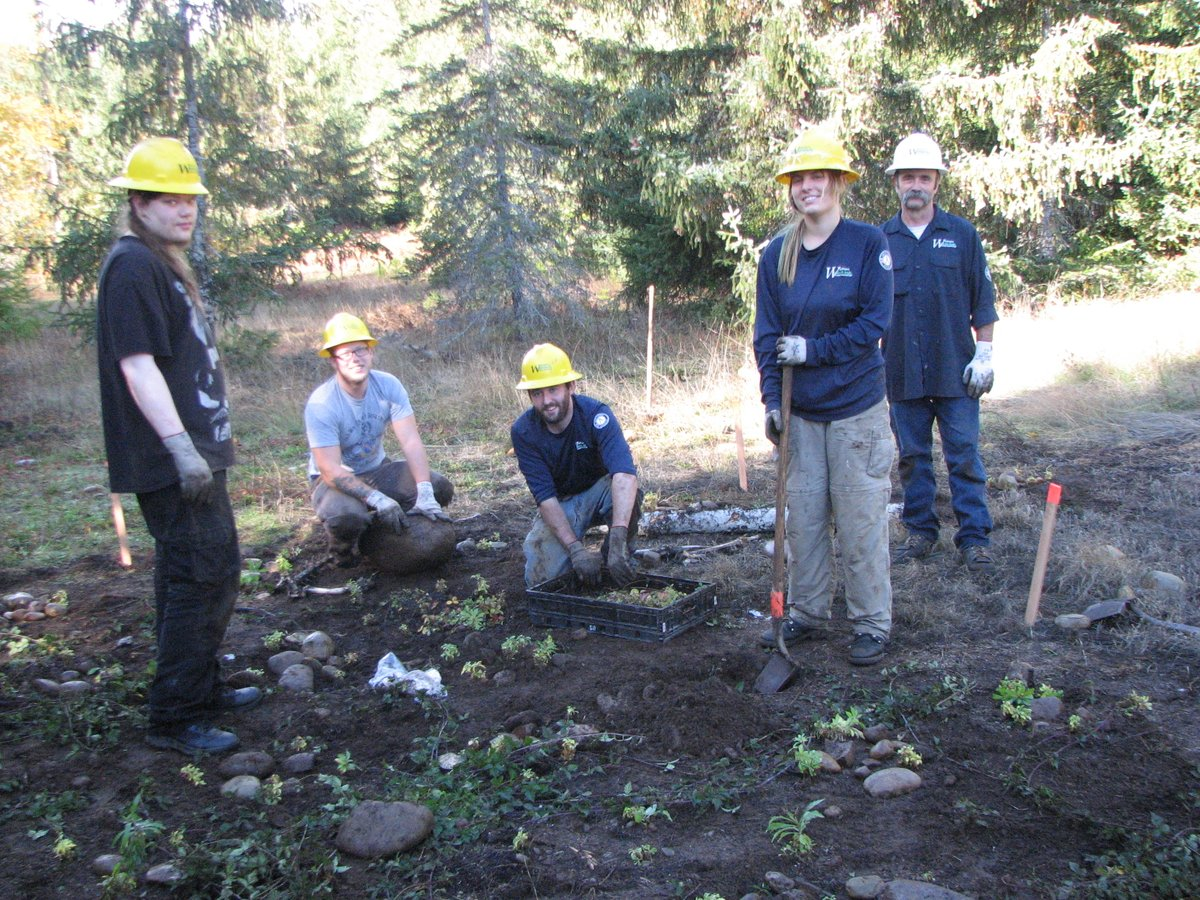 .@EcologyWCC crew & foresters planted natives at the #pollinator garden yesterday @ the seed orchard: goldenrod, yarrow, rose, & more! 🐝